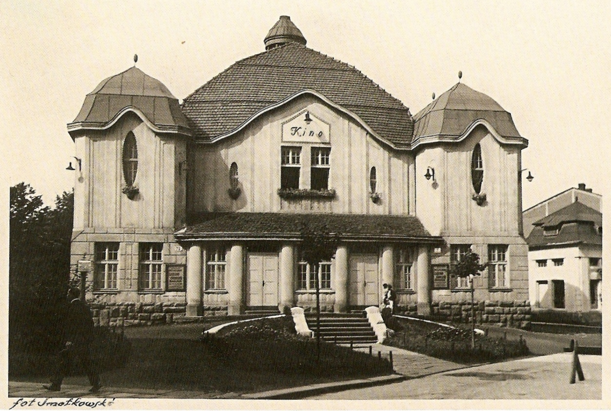 Building of cinema "Wanda" in Bielsko-Biała, Poland.